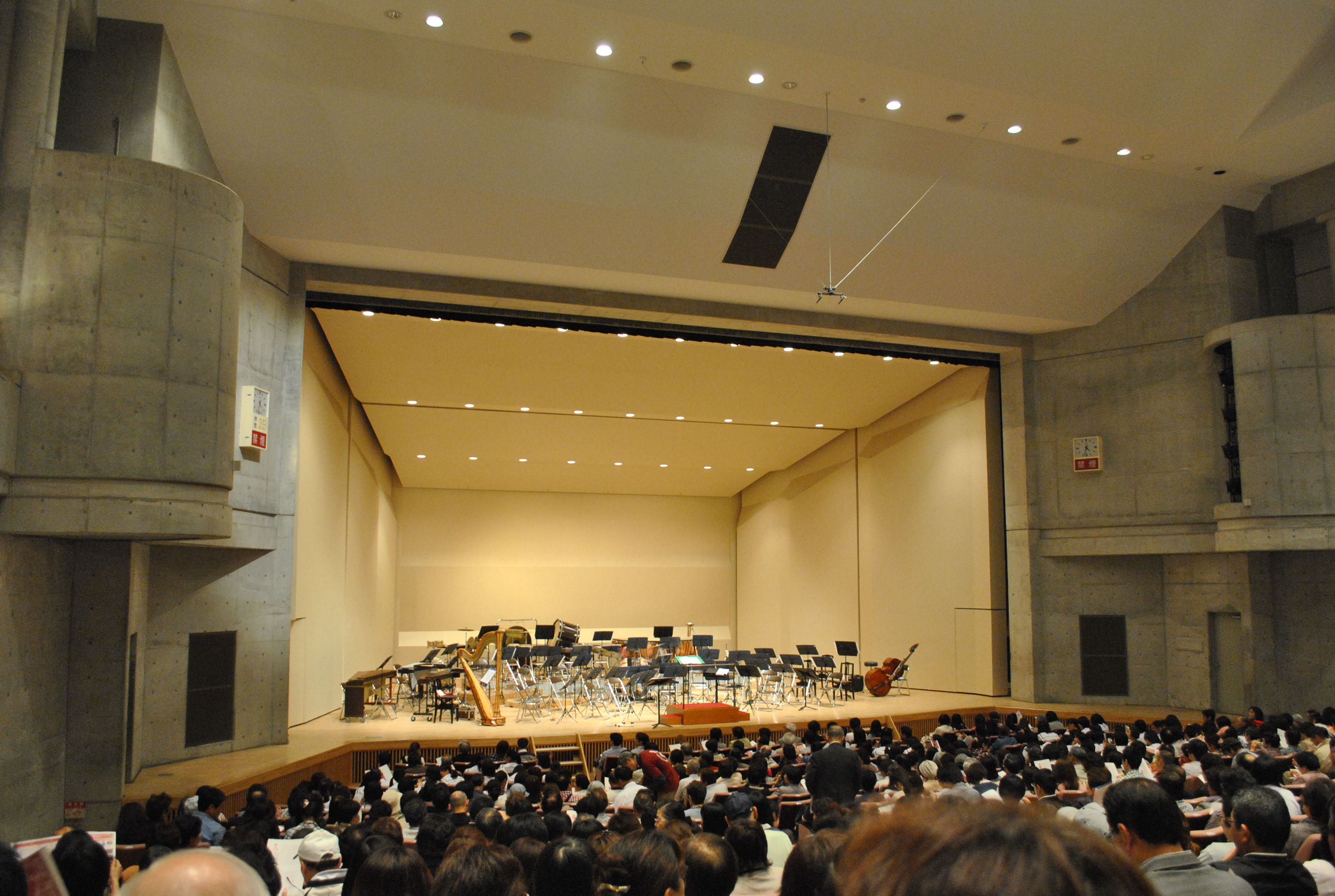 Yabuki Culture Center in Yabuki Town, Fukushima Pref., Japan.